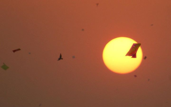 Khambhat(Gujarat), kite, sun and bird.